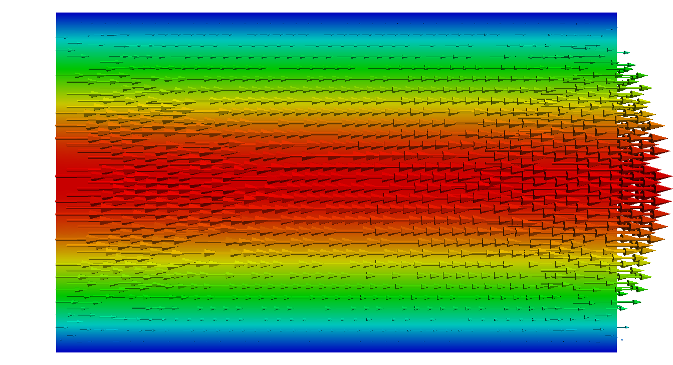 Illustration of the electric field in an electromagnetic waveguide, T E 01 {\displaystyle \mathrm {TE} _{01 mode, viewed towards the cross-section. Created using Paraview and ACE3P (Omega3P eigenmode solver, thin "slice" with magnetic walls on cross-sections, electric wall on outer metal "rim"). The geometry corresponds to waveguide with dimensions 11x6.667 mm^2.